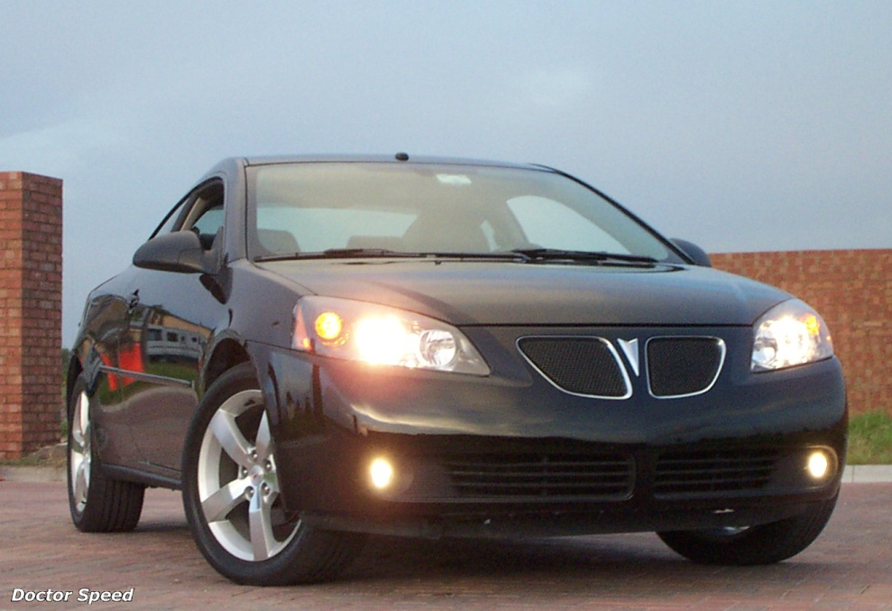 Pic I took of my 2006 G6 GTP coupe.